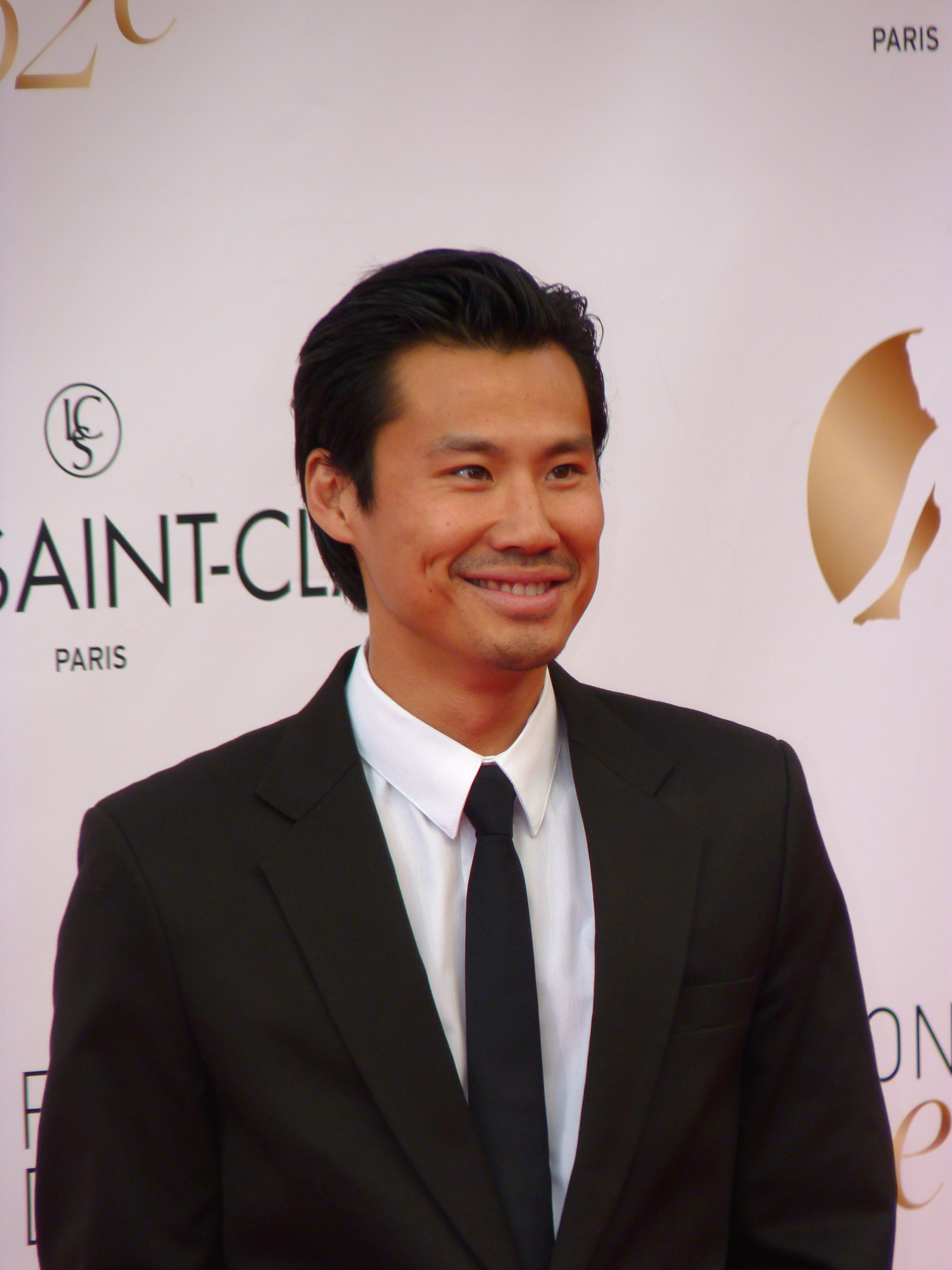 Frédéric Chau at the 2012 Monte-Carlo Television Festival.